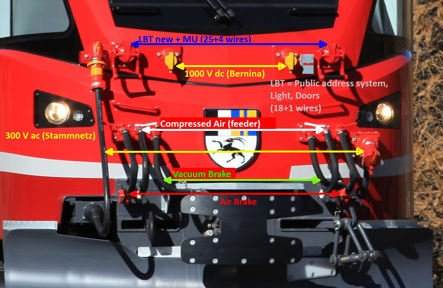 Front end of an RhB EMU "Allegra" with inscriptions explaining the use of each hose or cable.